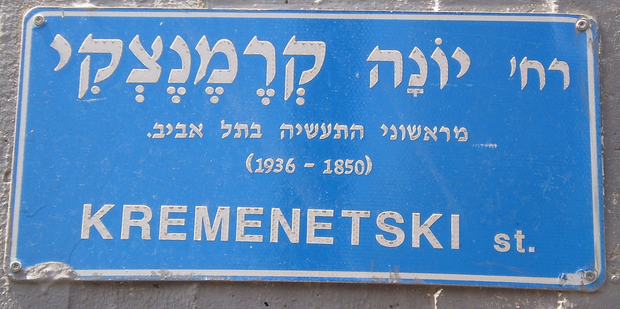 Kremenetski street, Tel Aviv